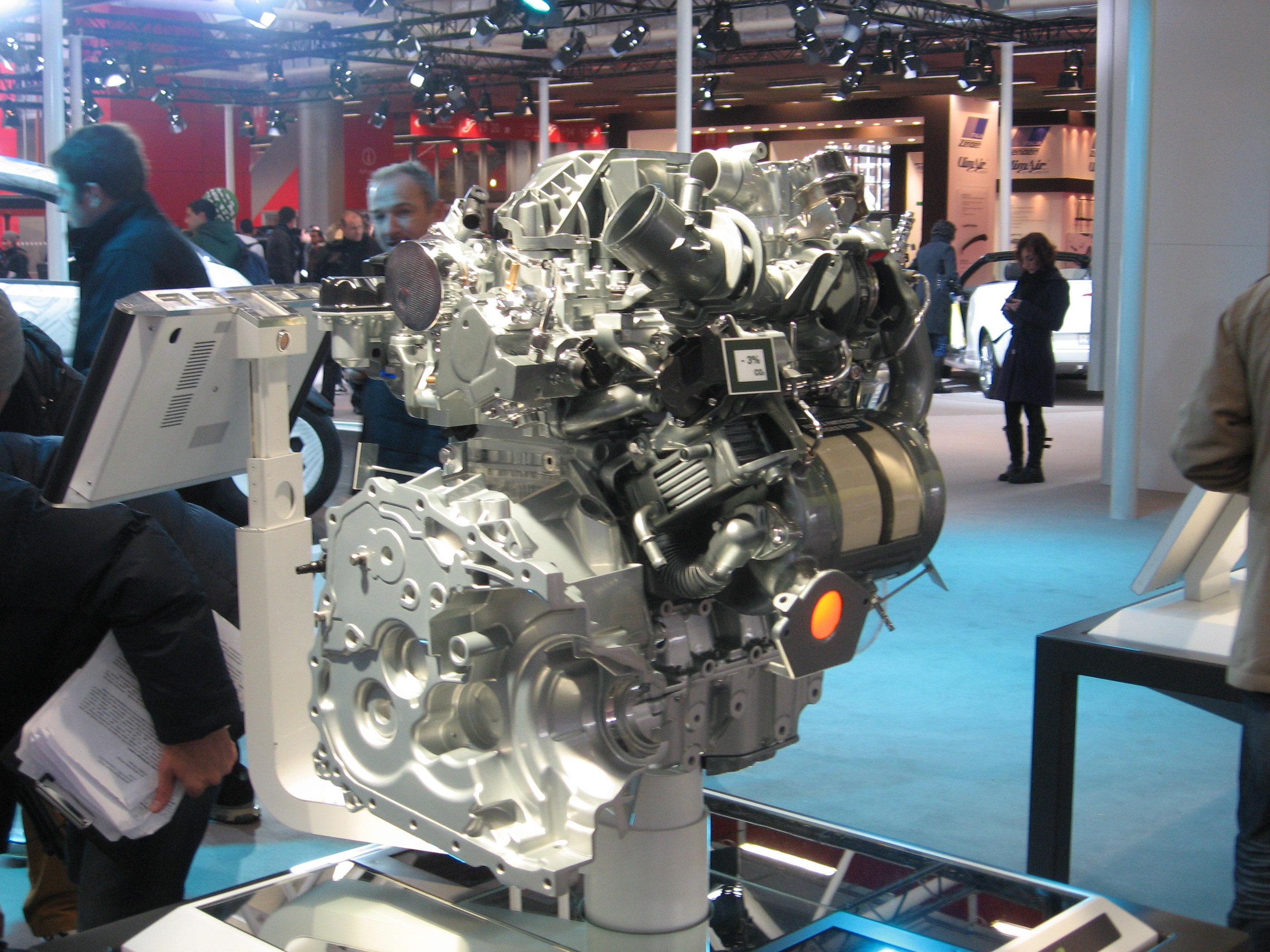 Subject: Renault R9M engine Date:December 5th, 2010 Event: Bologna Motor Show 2010 Place/Country: Bologna, Italy I release all rights in the public domain.